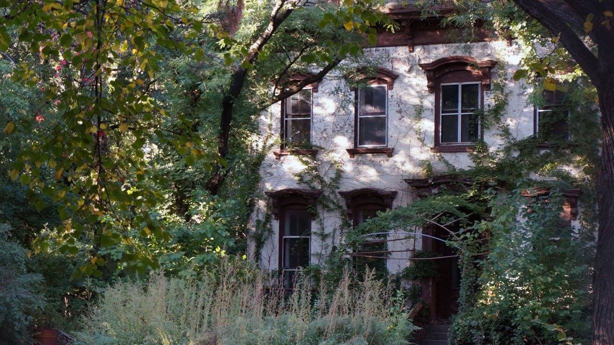 The Surgeon's Residence, near the old Hospital BuildingSite: Brooklyn Navy Yard